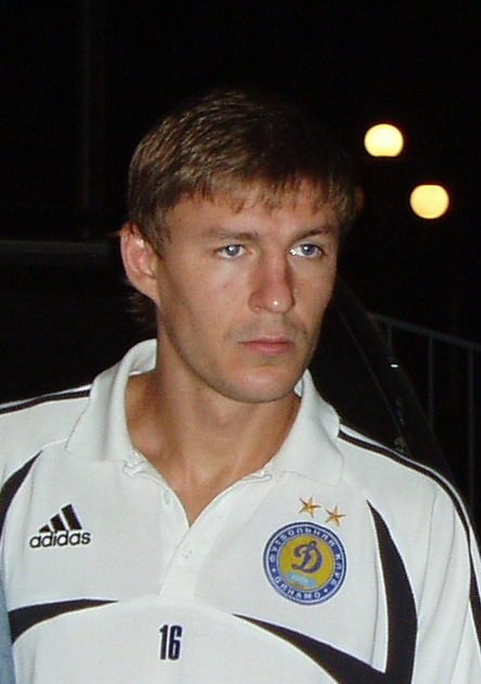 Maksim Shatskikh. 27 April, 2008. After the match between Dynamo Kiev vs. Cpartal Moscow (4-1).